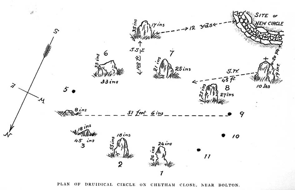 A plan taken by Thomas Greenhalgh in 1871 of Cheetham Close.